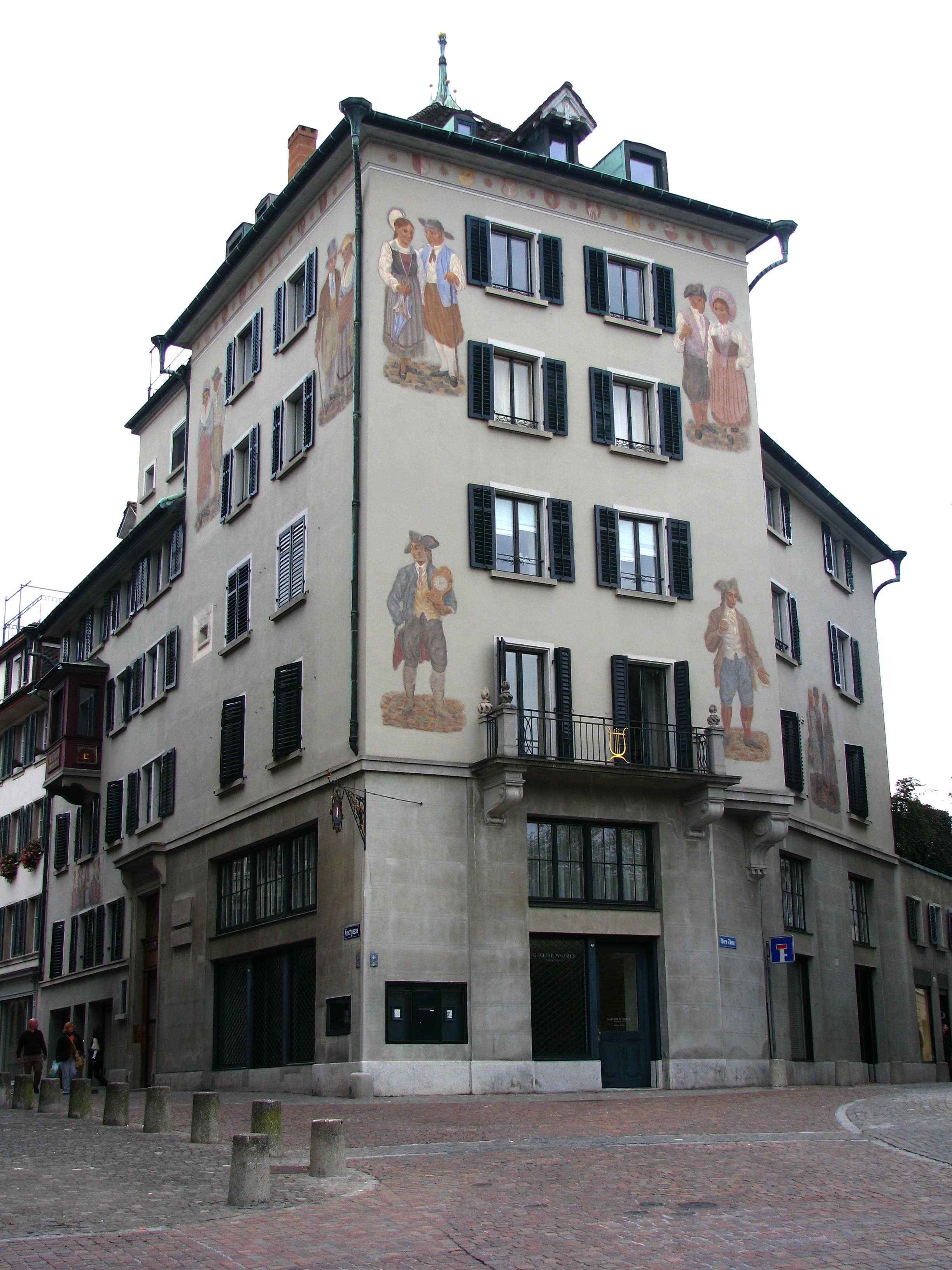 Zürich, Hirschengraben, Kirchgasse und Obere Zäune : «Steinhaus», Tower house of Manesse (13th century) and Meiss Knights. Estimated to be part of the so called first or second Fortifications of Zürich. 1861-1874 Gottfried Keller's office and residence as First Official Secretary of the Canton of Zurich.